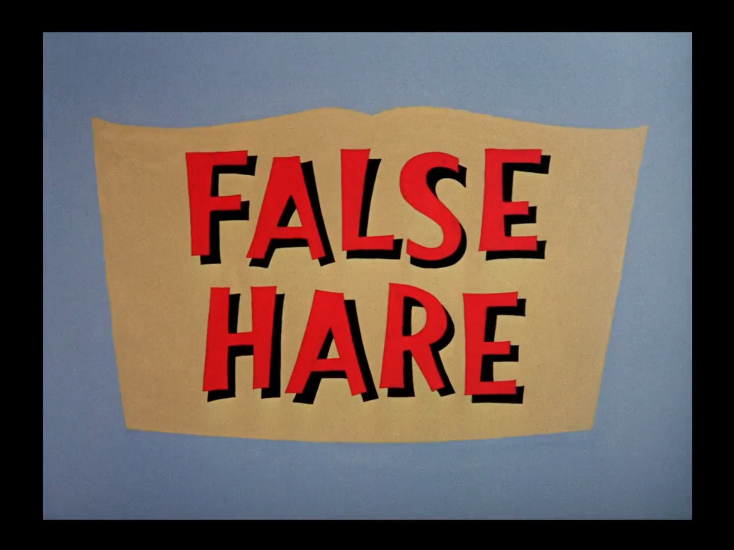 Title card for "False Hare," the last of Bugs Bunny's official cartoon shorts during the Golden Age of American Animation.